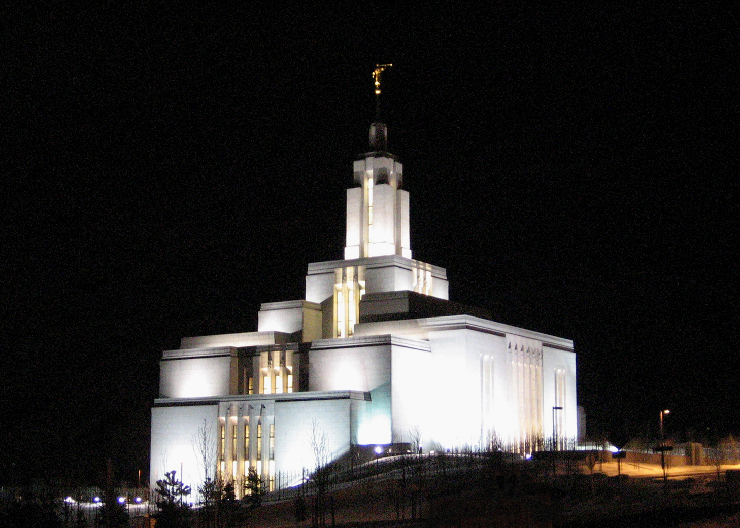 Draper Utah Temple, Draper, Utah, USA, of the Church of Jesus Christ of Latter-day Saints taken during the open house tours.